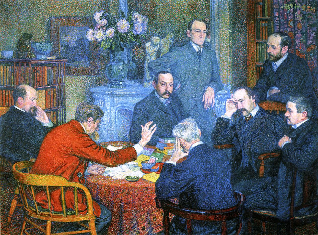 Theo van Rysselberghe (1862-1926), A Reading by Emile Verhaeren (1901)